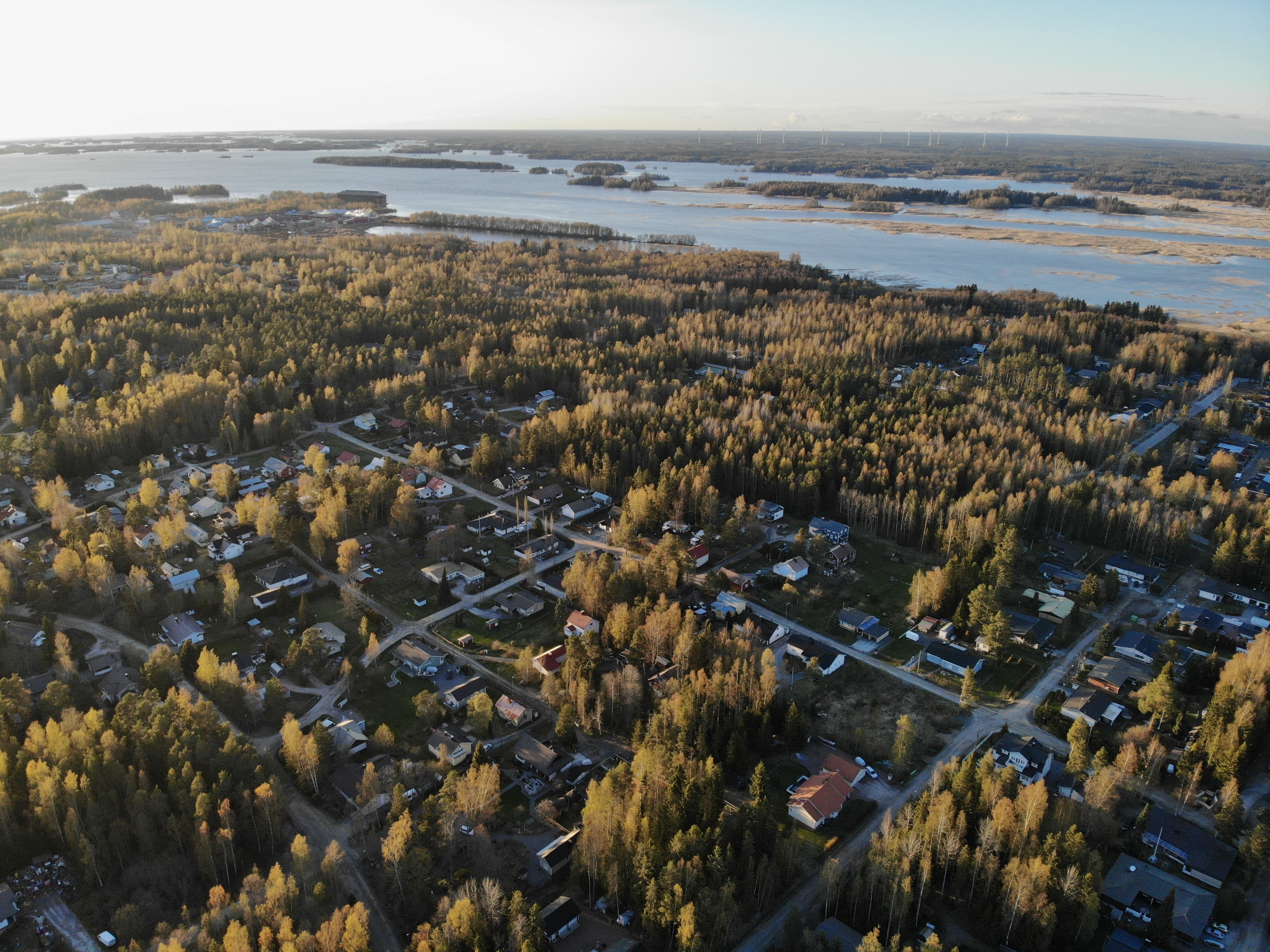 Aerial photograph from Enäjärvi, Pori.